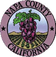 County of Napa seal.